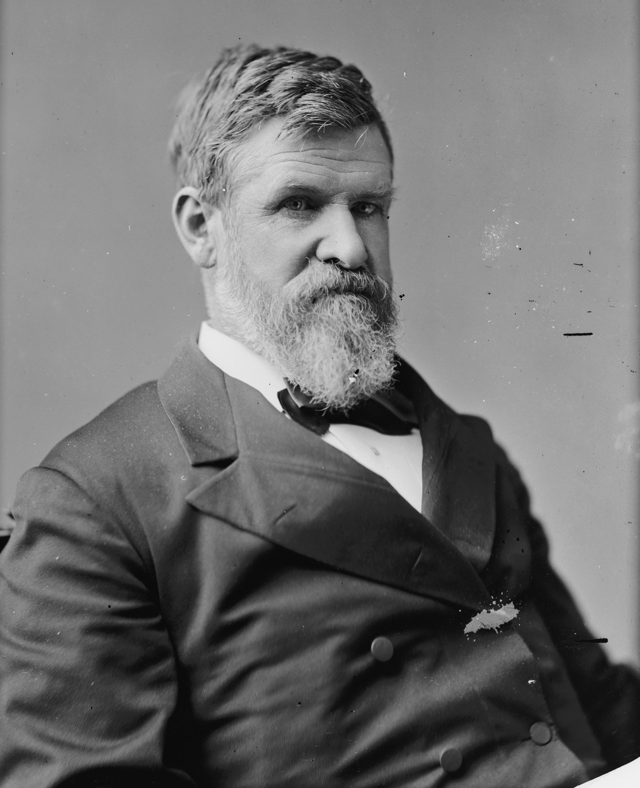 James Williams (Delaware representative). Library of Congress description: "Williams, Hon. James of Delaware".